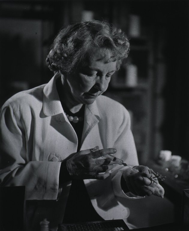 Sara Elizabeth Branham, injecting a chick.